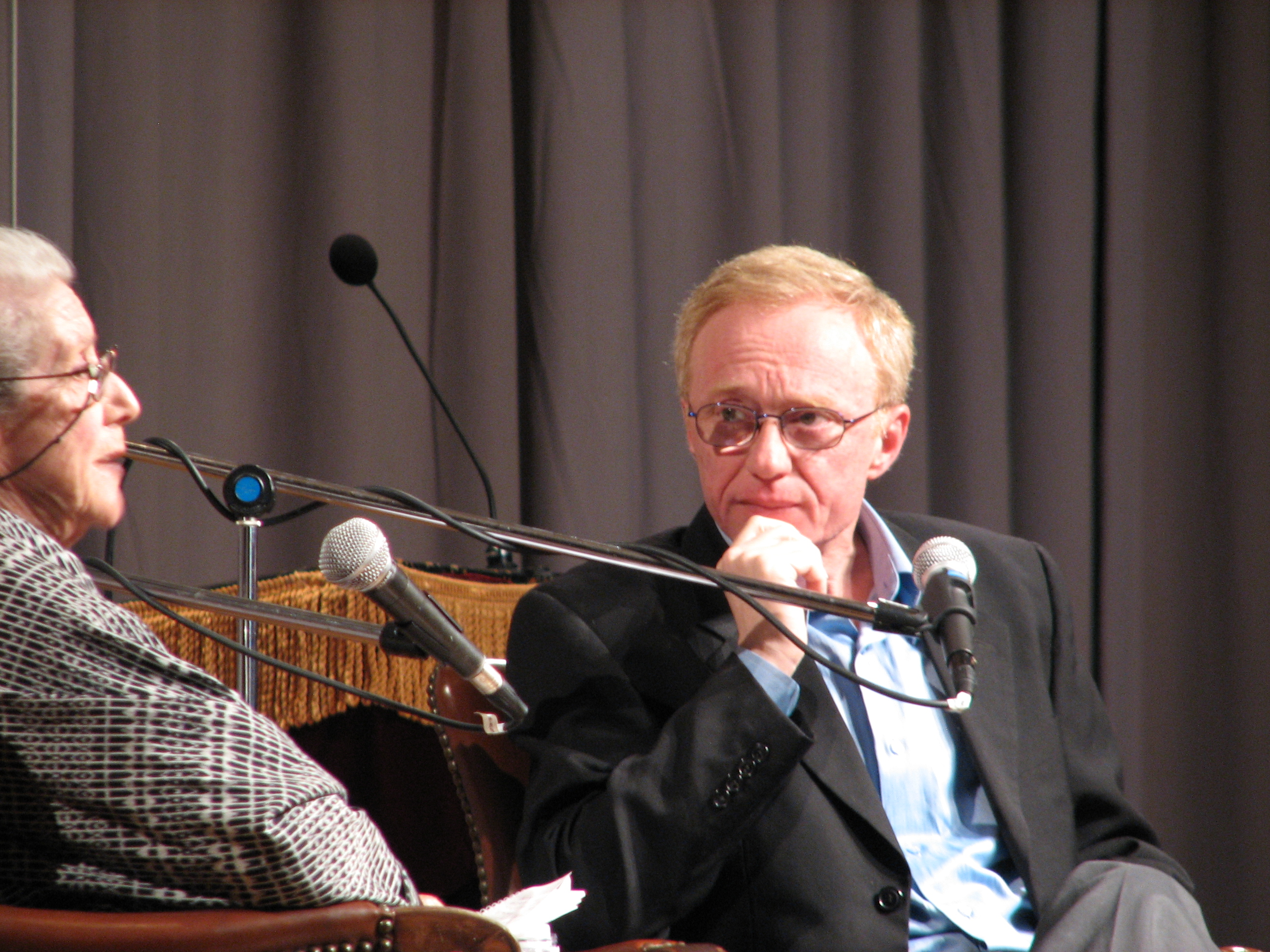 Nadine Gordimer and David Grossman